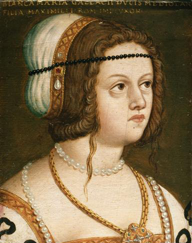 Bianca Maria Sforza